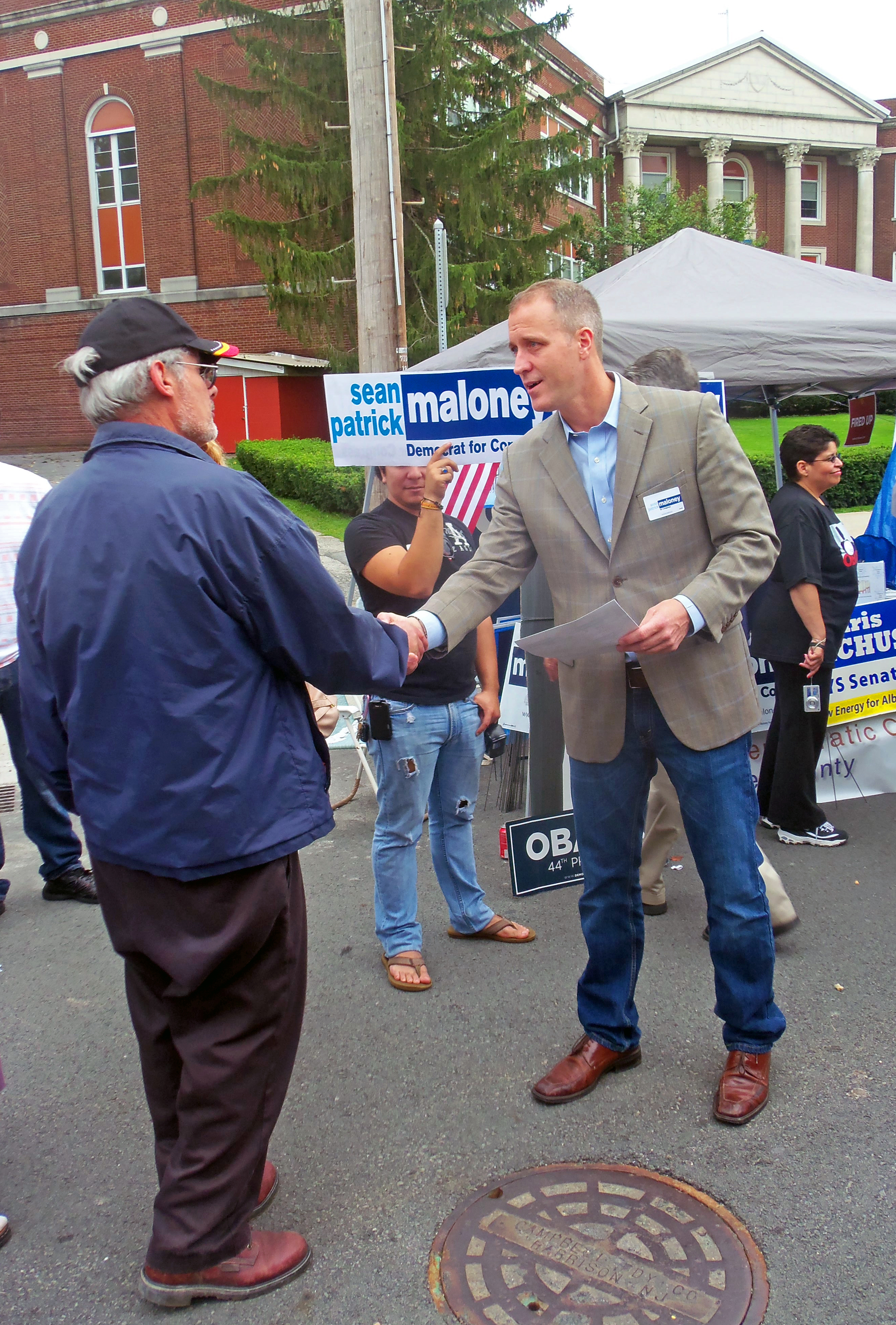 Sean Patrick Maloney talks to a voter at Walden Day in Walden, NY, USA during the 2012 election for New York's 18th congressional district, which he went on to win.